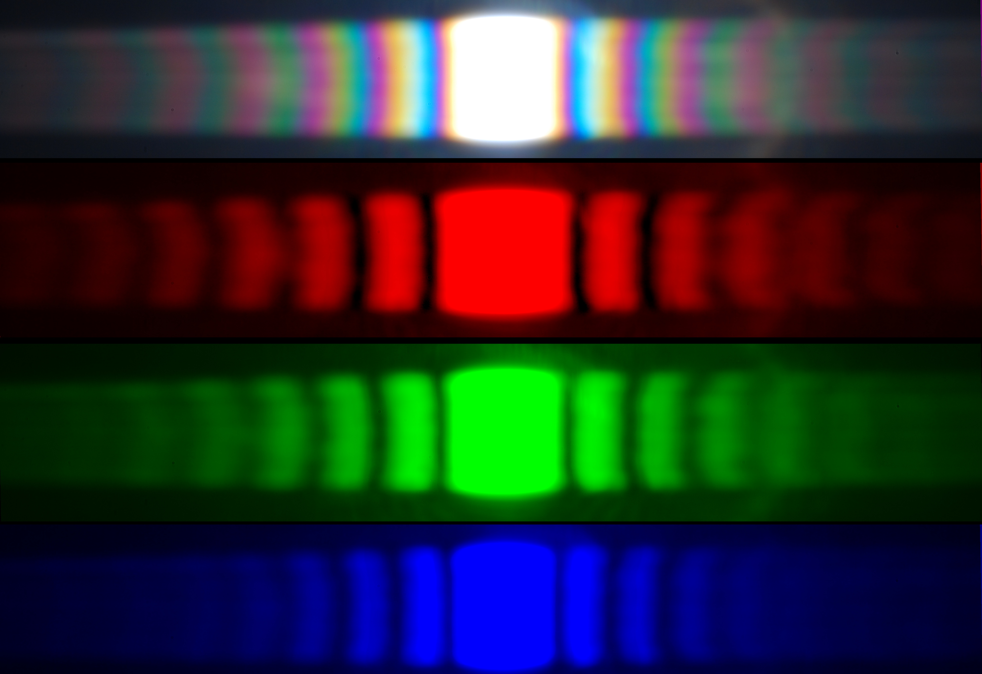 Diffraction of sunlight through a 20 micrometer slit, projected directly on the camera CCD (without a lens). The image (top) was decomposed in its three color channels (red, green, blue).